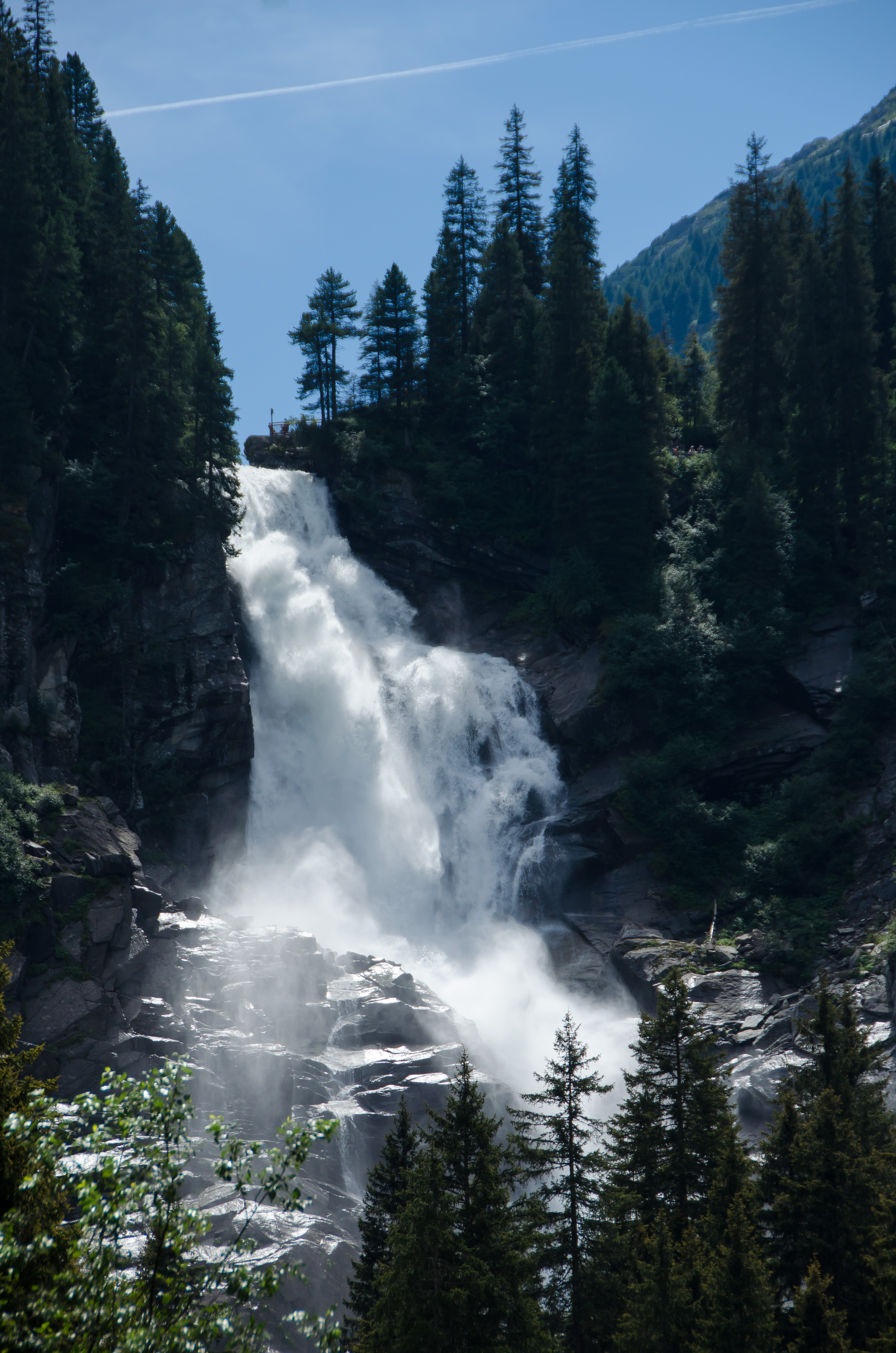 Upper part of the Krimmler Wasserfalle in Krimml, Salzburg, Austria